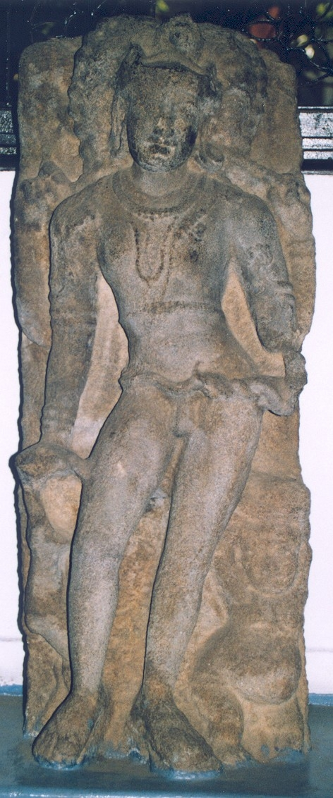 Shiva, Government Museum Madras, India [1]